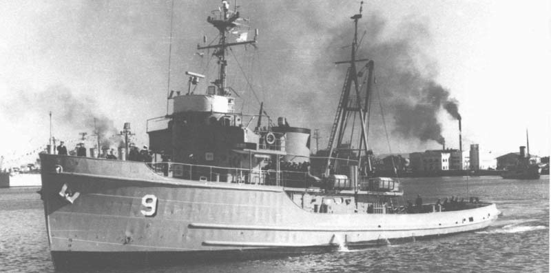 Photograph by Ignacio Amendolara, Obtained from (National Assoc. of Fleet Tug Sailors), Photograph taken in the 1970s, copyright expires in Argentina after 25 years. Alferez Sobral was originally a Sotoyomo class rescue tug in the US Navy named USS Salish. Transferred to the Argentina Navy 1972.